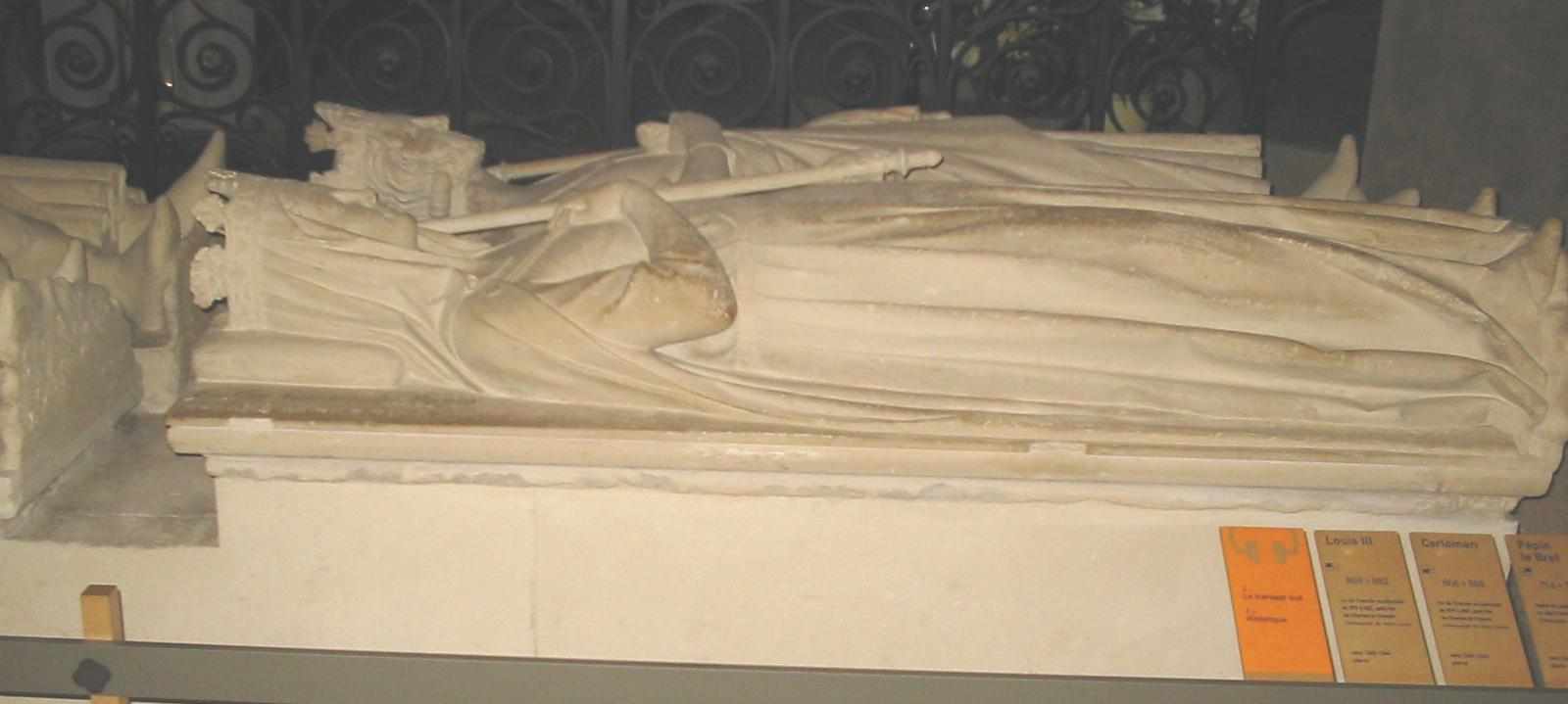 Tomb of Bertrada of Laon, St. Denis basilica